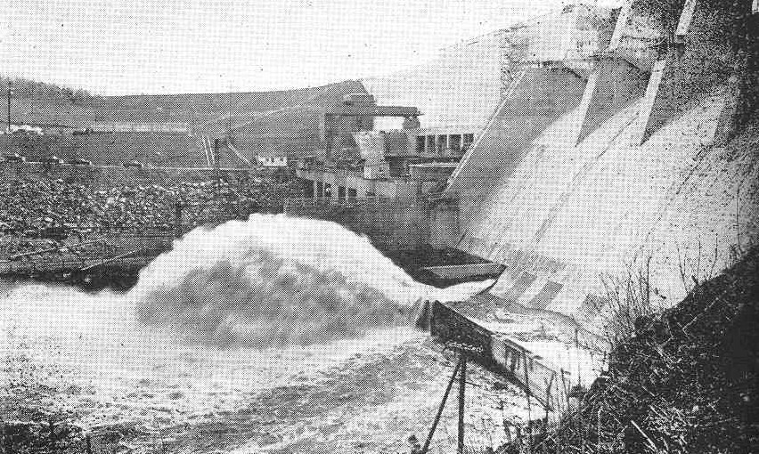 Lower sluice gate in full operation at TVA's Boone Dam on the South Fork Holston River in Sullivan and Washington County, Tennessee, USA.